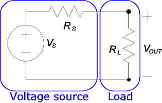 Created by Smack (talk) using Micrografx Designer [sic] software. Source file available upon request, in any of several file formats supported by Micrografx.